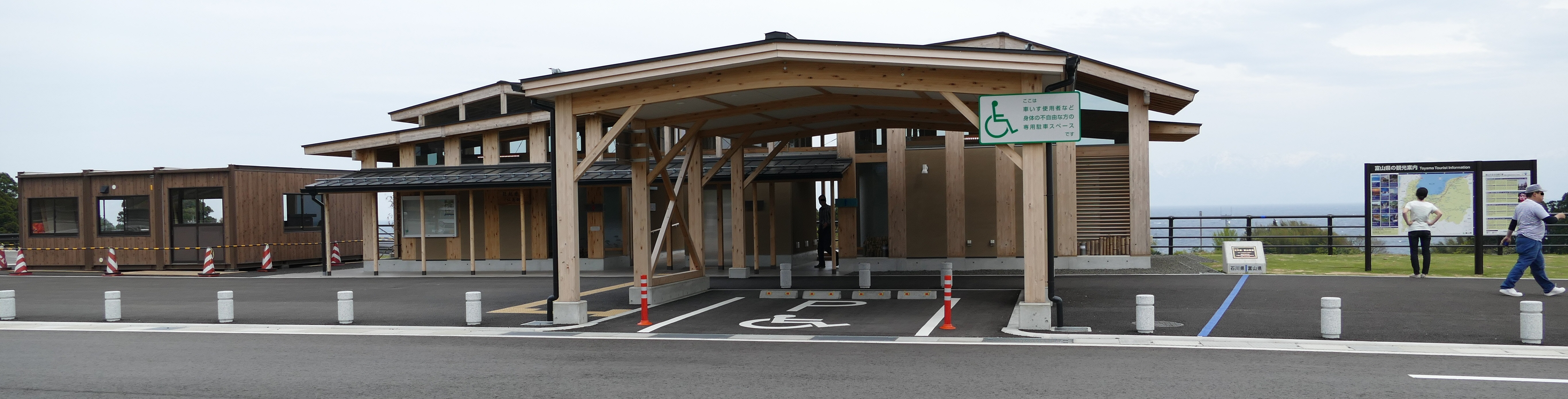 Nōetu kenkyō Parkig Area,Ishikawa prefecture/Toyama prefecture,Japan